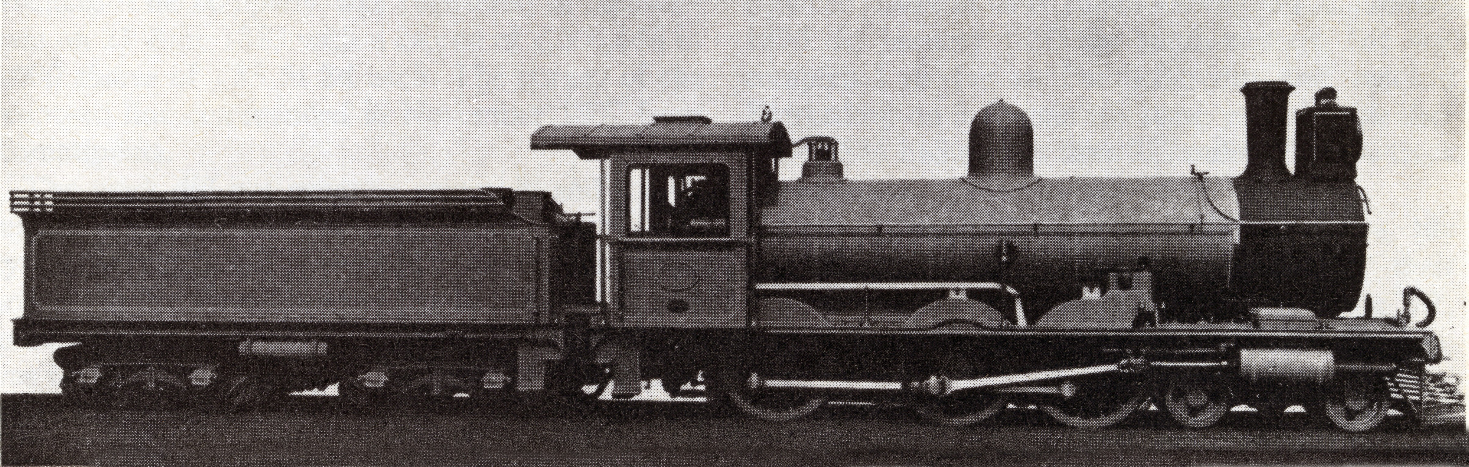 Ex Oranje-Vrijstaat Gouwermentspoorwegen Class 6 (4-6-0)Ex Central South African Railways Class 6-L3 (4-6-0)South African Railways Class 6E (4-6-0)